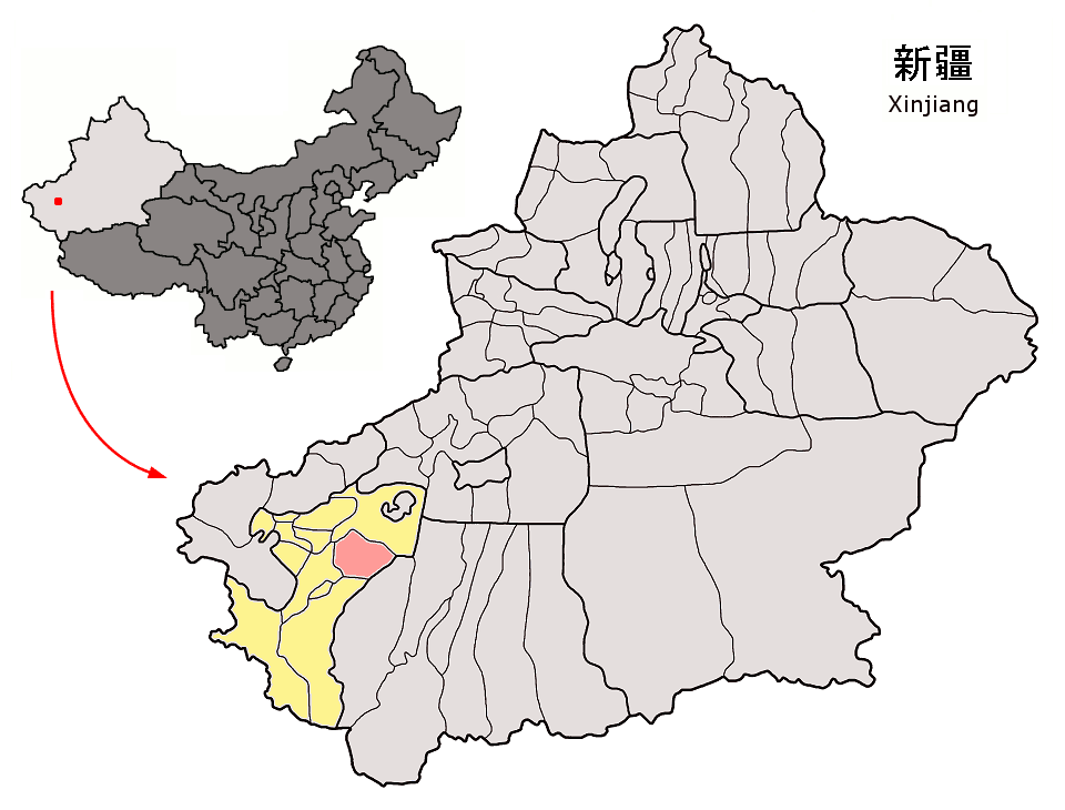 Location of Makit County (pink) and Kashgar Prefecture (yellow) within Xinjiang autonomous region of China Map drawn in september 2007 using various sources, mainly : Xinjiang Uygur autonomous region administrative regions GIS data: 1:1M, County level, 1990 Xinjiang Counties map from